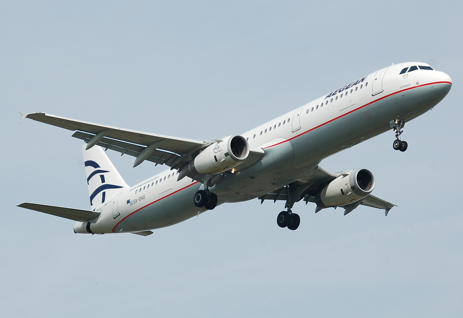 Aegean Airlines Airbus A321-200 (SX-DVO) lands at London Heathrow Airport, England.